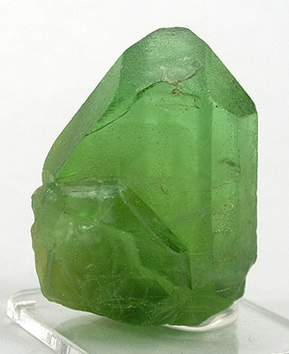 Olivine Locality: Naran-Kagan Valley, Kohistan District, North-West Frontier Province, Pakistan (Locality at ) Size: miniature, 3.4 x 2.5 x 1.9 cm (28 grams) Peridot This is from a new find of peridots at this now-classic locality which has produced the world's best crystals of the species by far. The color is just a REALLY JUICY LIMEY-GREEN COLOR the likes of which you seldom see. The crystal is very gemmy and translucent to transparent throughout, as well, so it is better in person than the photos indicate. I know these have been comin gout for years now, but THIS type is different - just a bit more vibrant in color, overall, and with great terminations. This was one of the few miniatures I picked up for a mix of form and color quality. There are a few very insignificant dings, and one contact on the left side. It is otherwise complete all around.